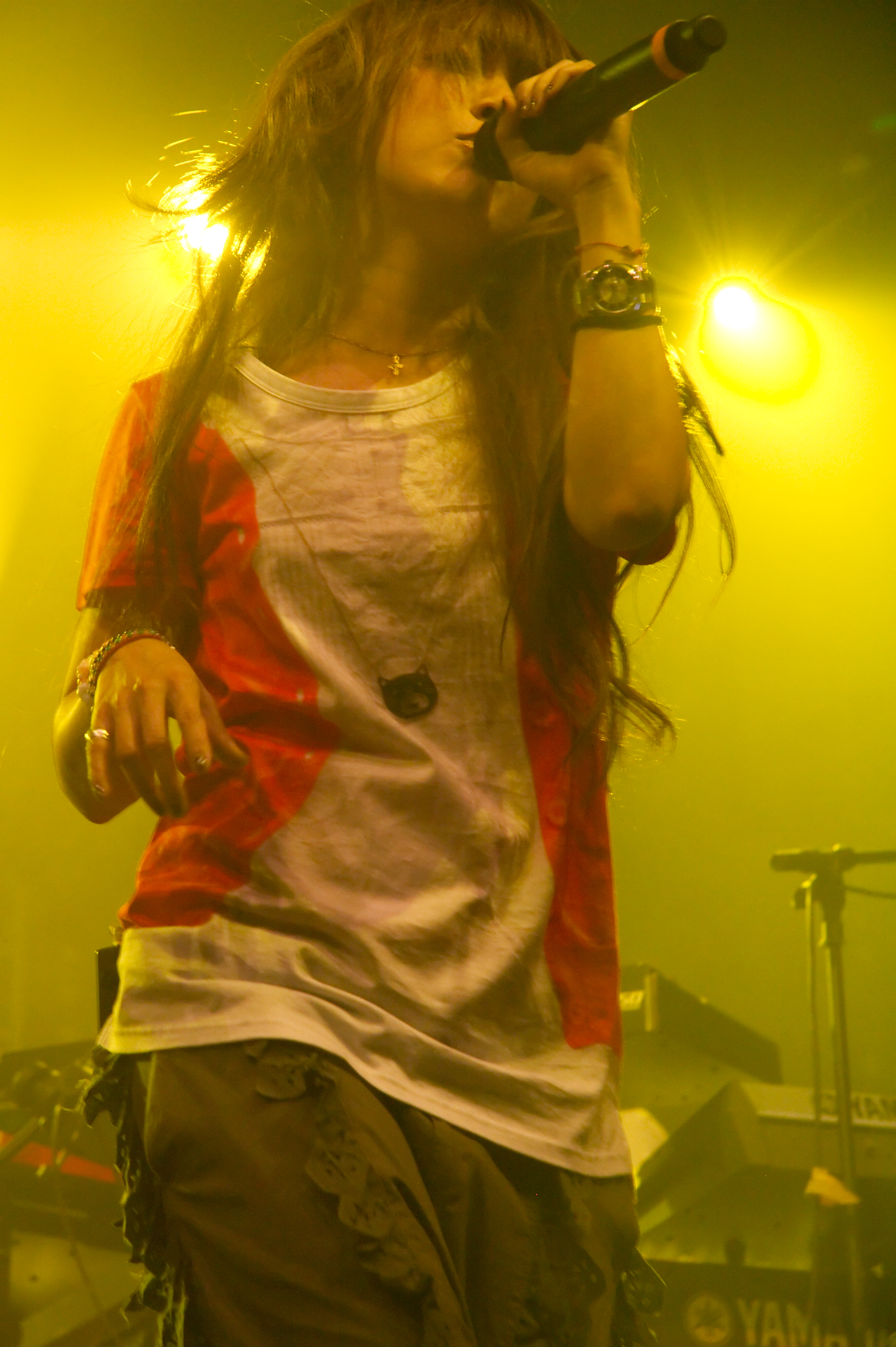 Puffy AmiYumi live at Japan Expo 2009 (Paris, France)